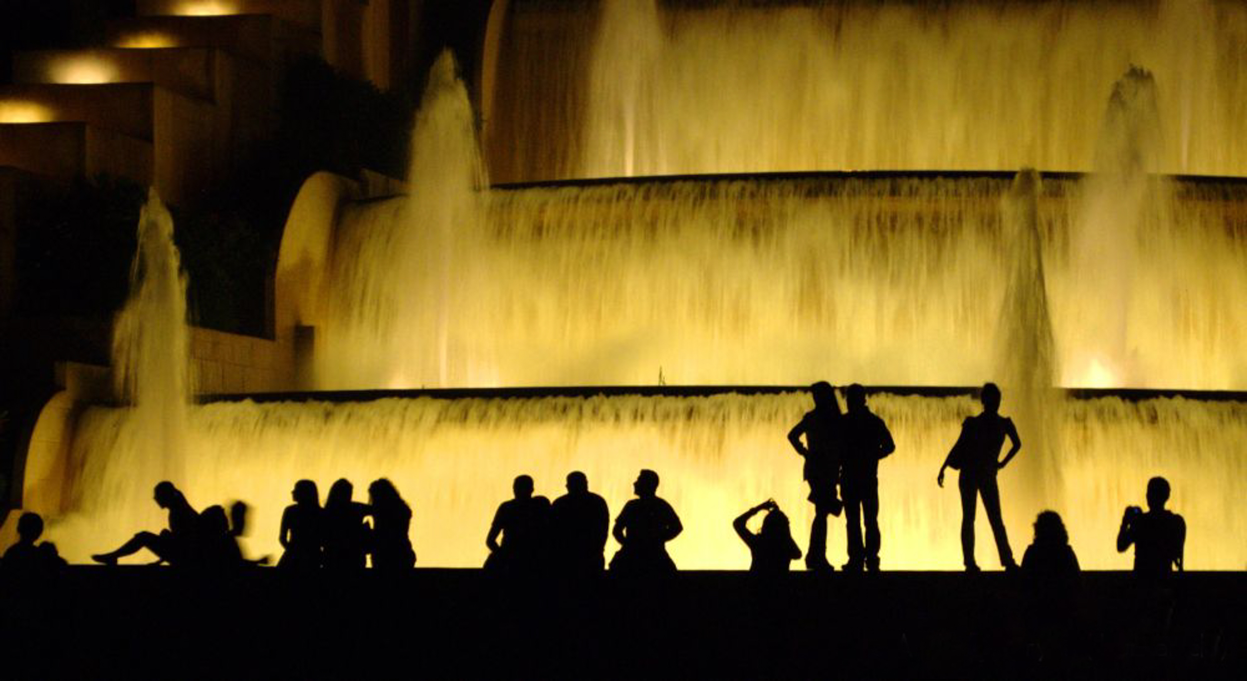 Fountains in front of MNAC.